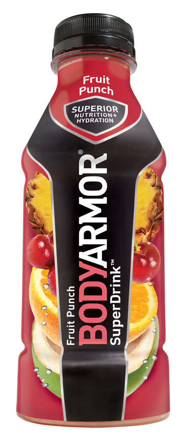 Image of BODYARMOR SuperDrink Fruit Punch Bottle